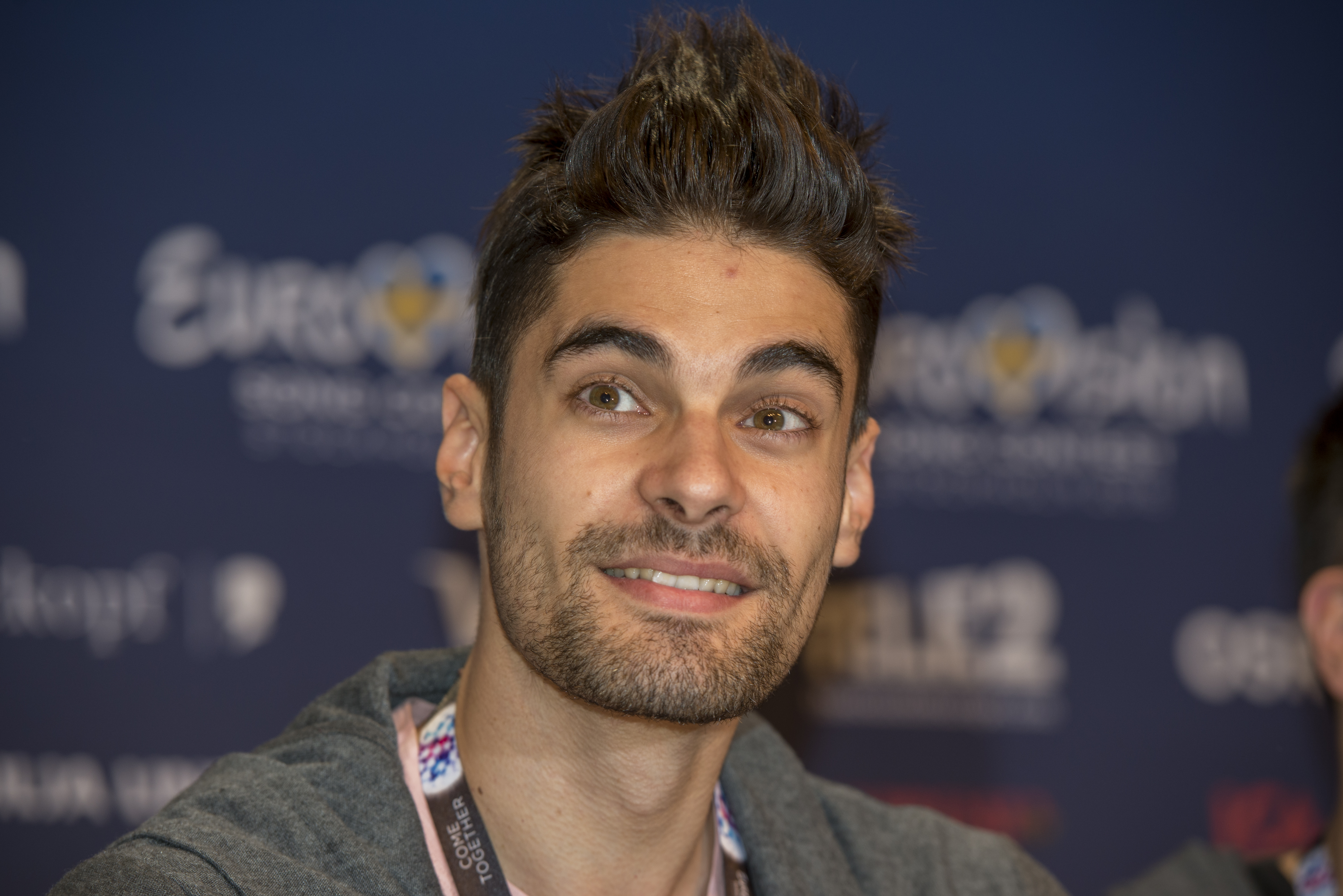 Freddie at a Meet & Greet during the Eurovision Song Contest 2016 in Stockholm. (Help translate this text)